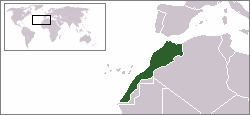 (Modified from :Image:LocationMorocco.png showing Western Sahara which is de facto administered by Morocco)